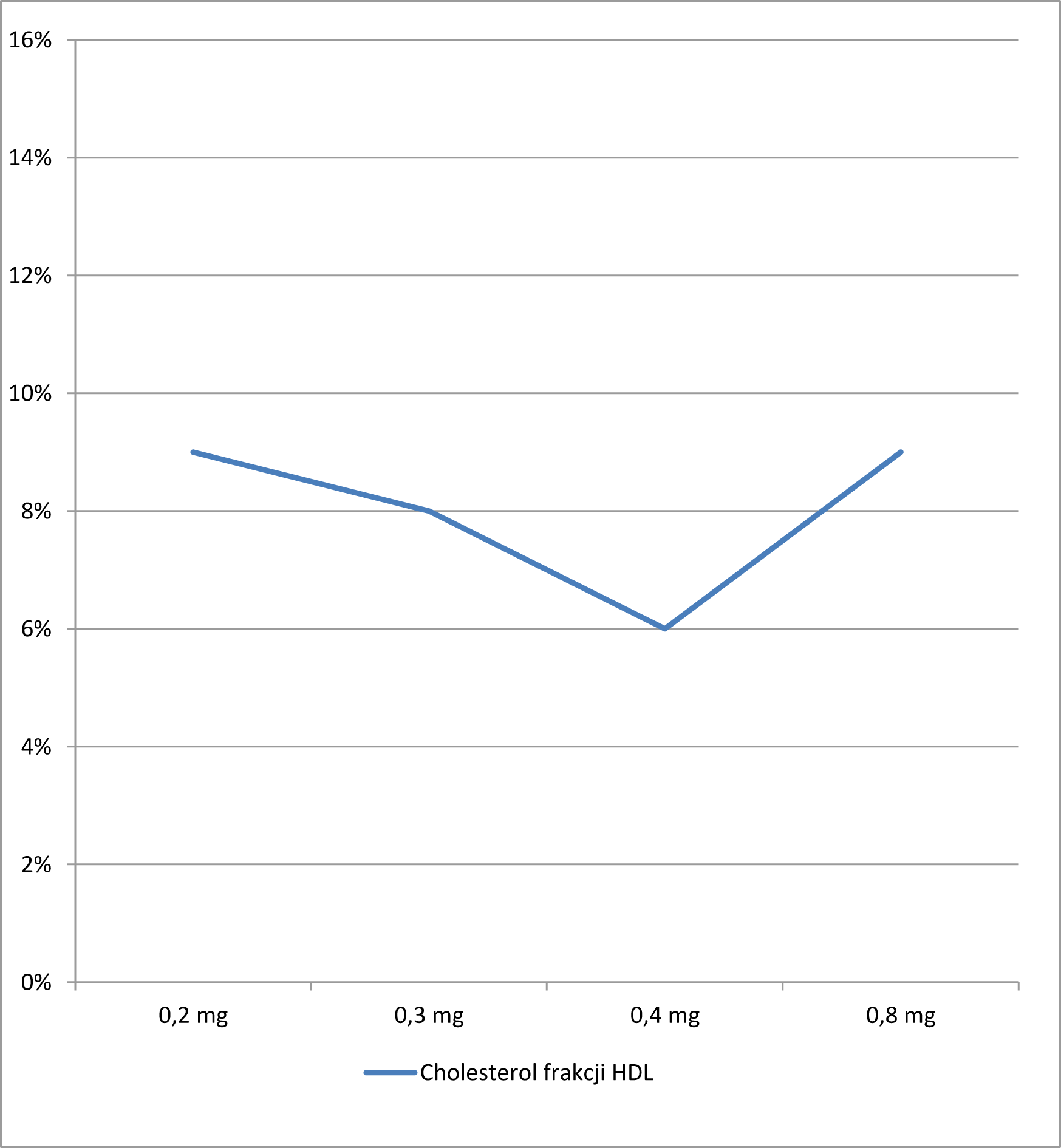 Wpływ ceriwastatyny na wskaźniki lipidowe (dane do wykresu za BAYCOL (cerivastatin sodium tablets))